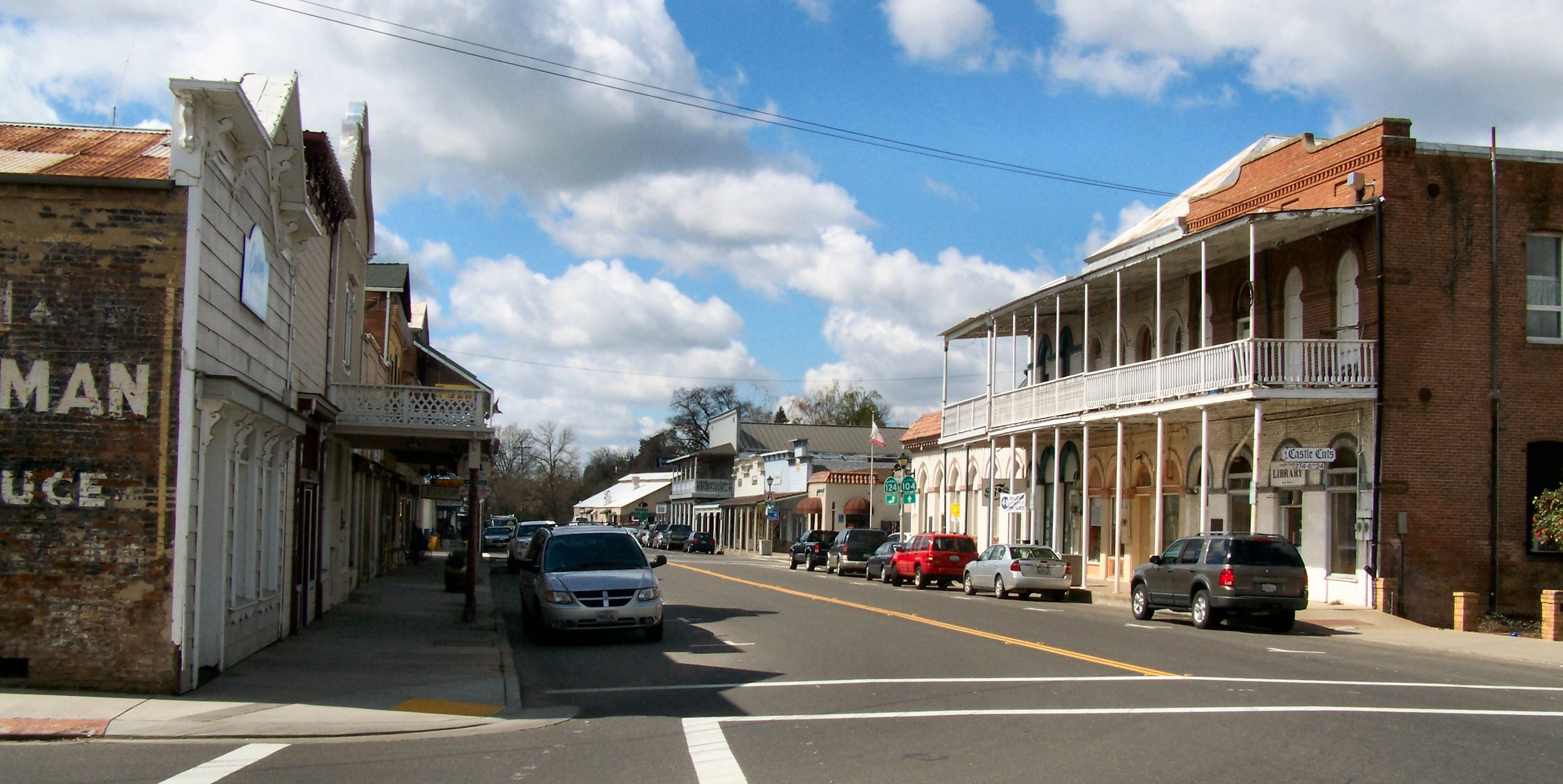 Main Street in Ione, California within Amador County